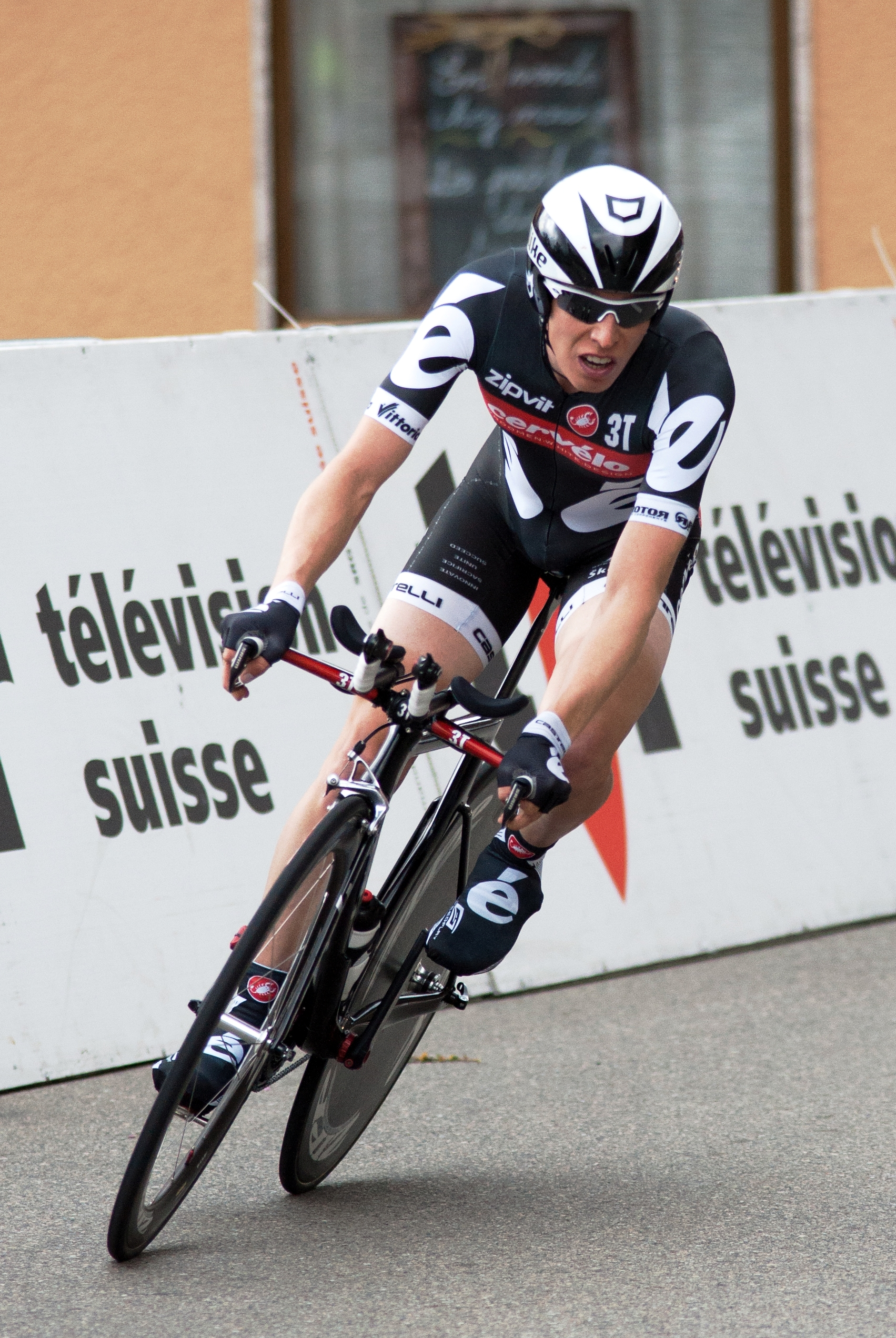 Marcel Wyss during the 3rs stage of the Tour de Romandie 2010.